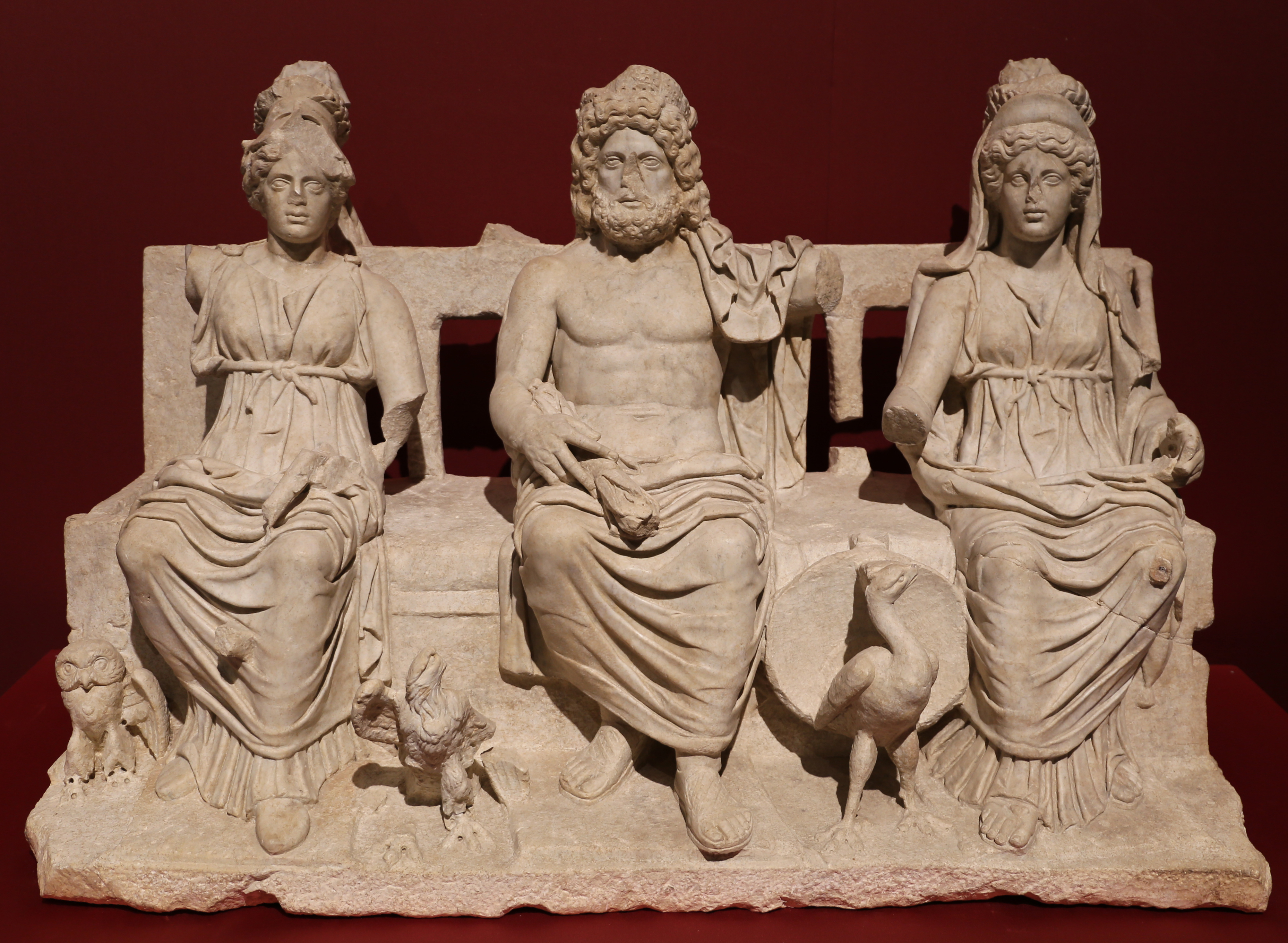 La Tutela Tricolore (2016 exhibition)